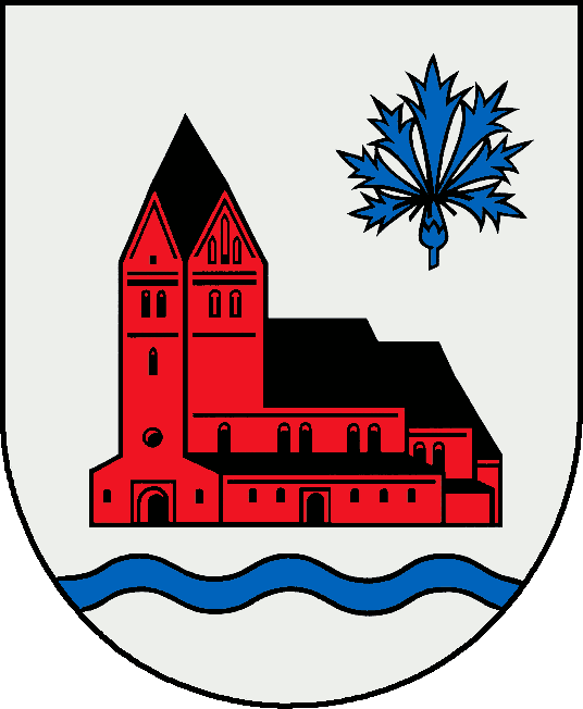 Coat of arms of the municipality Altenkrempe in Schleswig-Holstein, Germany.